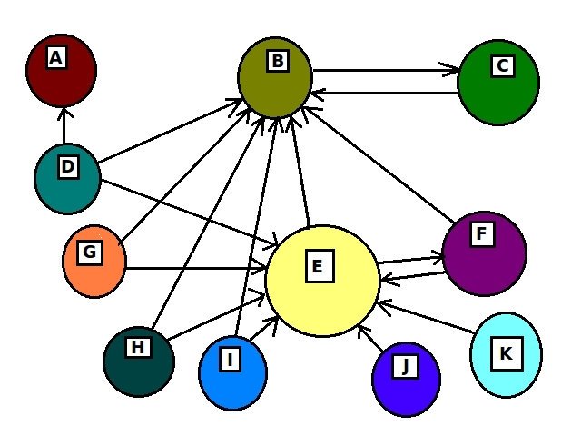 Diagram to illustrate concept of PageRank. Suppose each circle is a website, and an arrow is a link from one website to another, such that a user can click on a link within, say, website F to go to website B, but not vice versa. Google crawlers examine which websites link to each other and assume that websites with more incoming links are what users want.